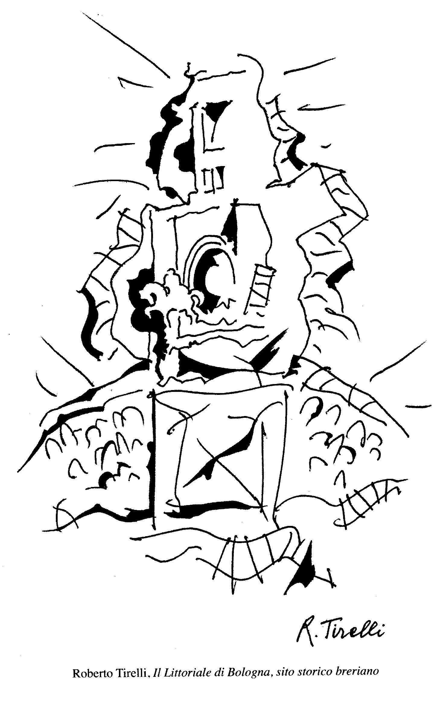 Il littoriale di Bologna, sito storico breriano